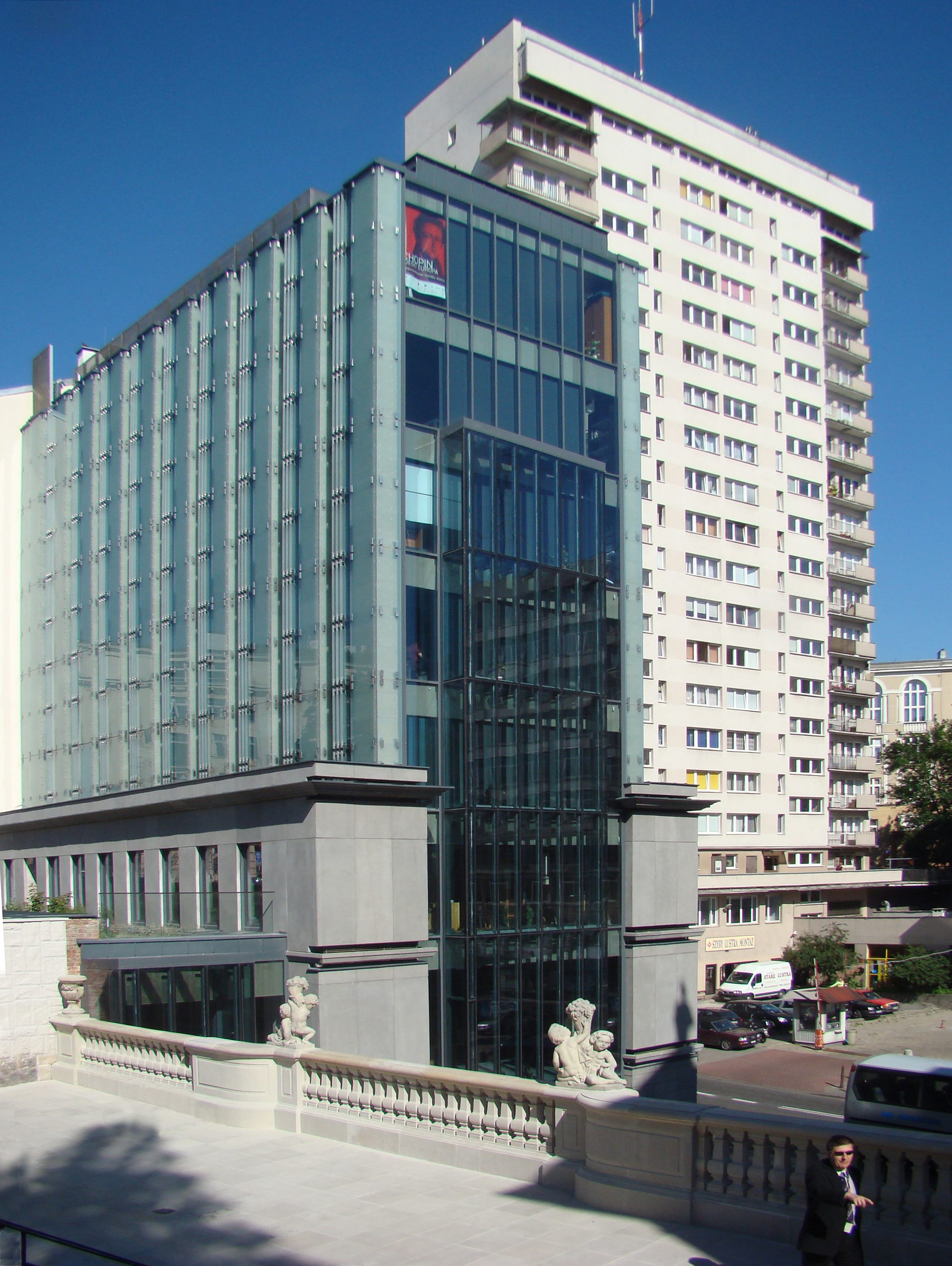 Chopin Institute new building, Tamka street, Warsaw, near Ostrogski Palace